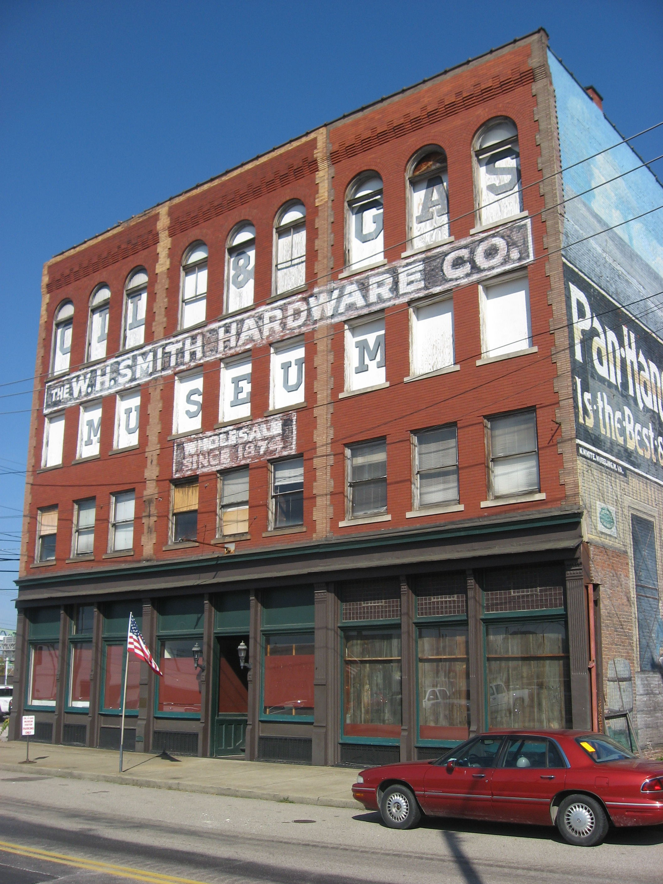 Front and eastern side of the W.H. Smith Hardware Company Building, located at 119 Third Street in Parkersburg, West Virginia, United States. Built in 1899 and since converted into the Museum of Oil and Gas, it is listed on the National Register of Historic Places.